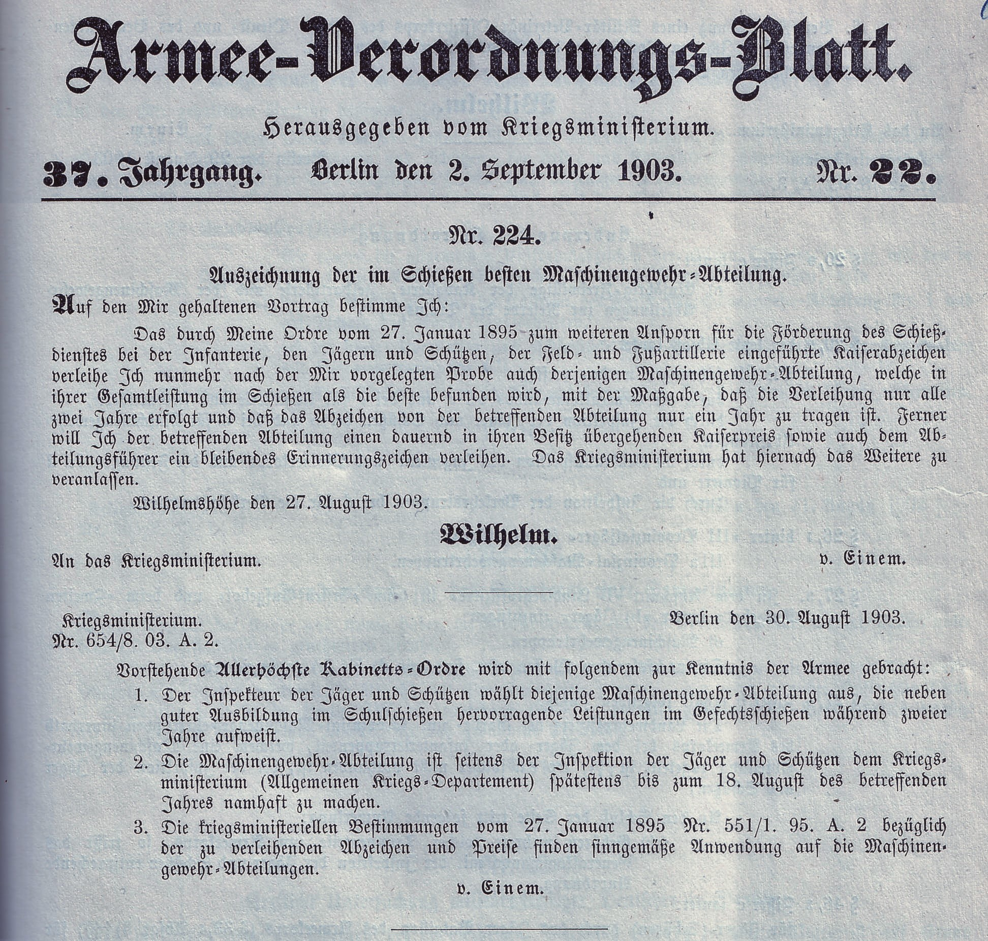 prussain military commander decree journal from 1903 for shooting-price